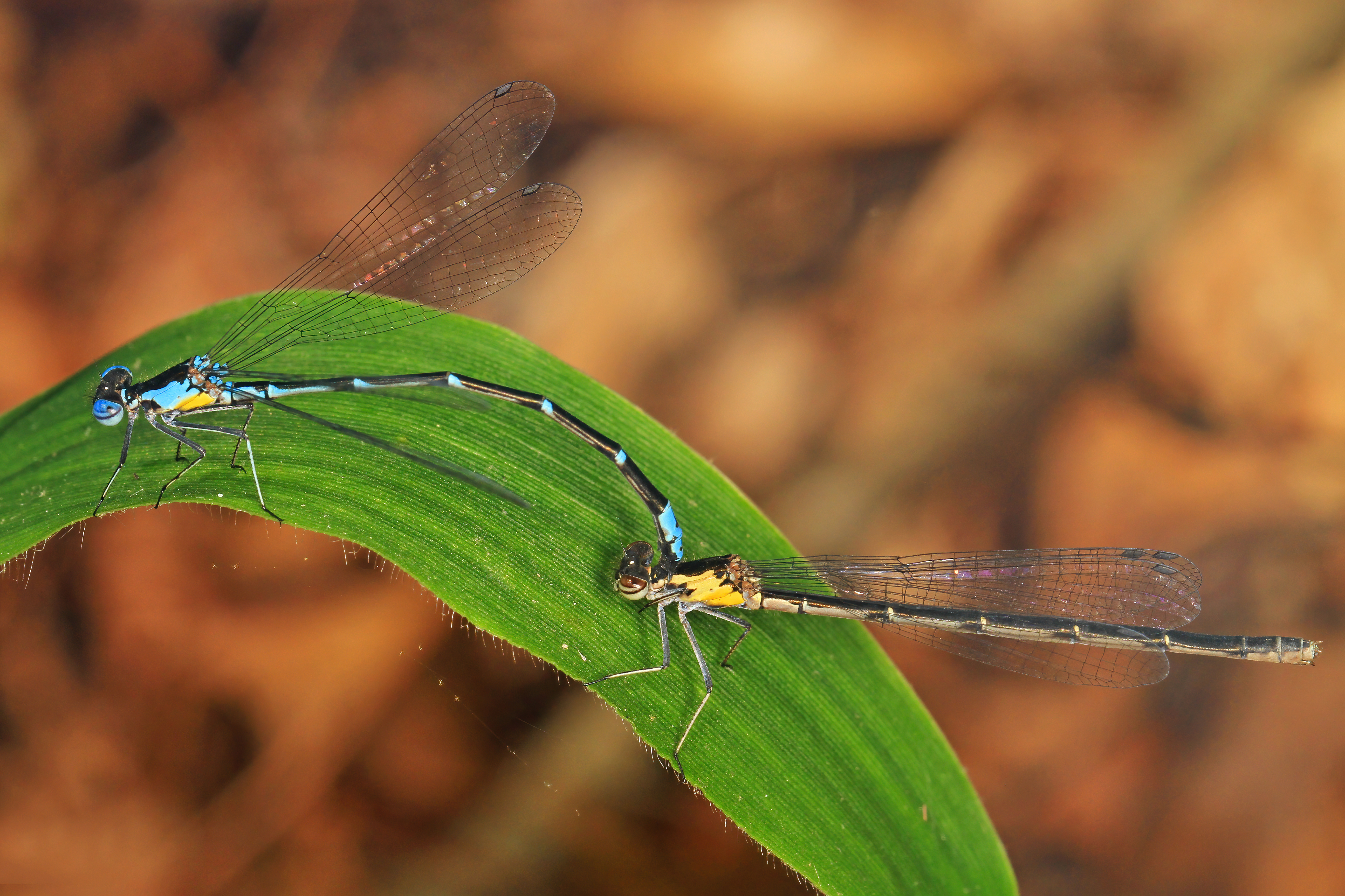 Aurora Damsels - Chromagrion conditum, Prince William Forest Park, Triangle, Virginia